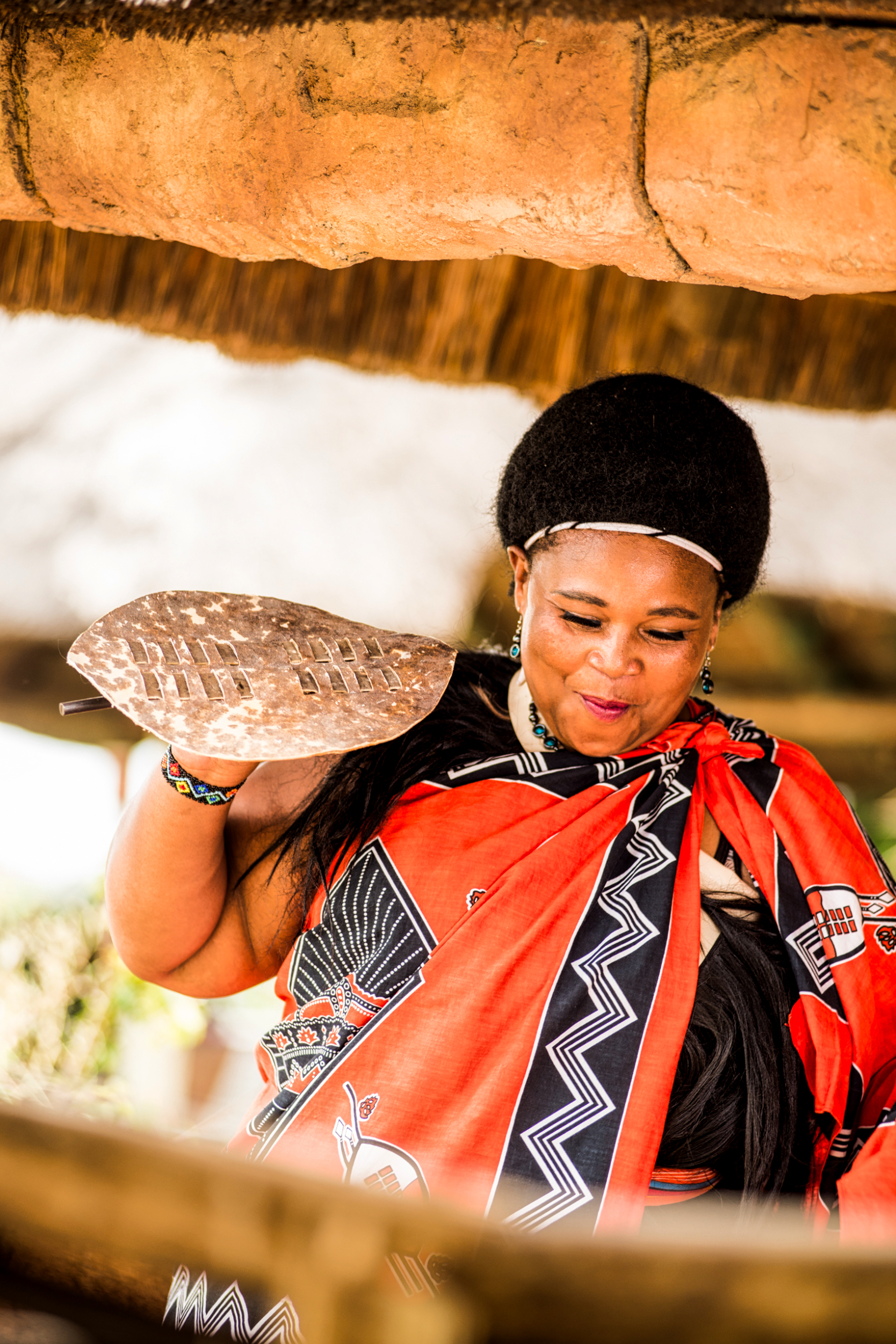 A Swati Woman Dancing This is an image from South Africa